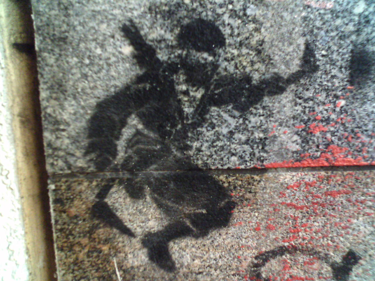 Beschreibung / Description: Pochoir / stencil-art-Graffiti in Linz: Ninja-Fighter Quelle/Source: picture taken by myself in Linz, 26 september 2005 Lizenz/License: all rights released